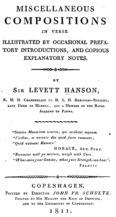 "Miscellaneous Compositions in Verse, illustrated by occasional prefatory introductions, and copious explanatory notes," title page, by 'Sir' Levett Hanson, printed at Copenhagen, Denmark, by John Fr. Schultz, 1811. 'Sir' Levett Hanson was an authority on European knighthood who was born in Yorkshire, educated at Paston School as a classmate of Admiral Nelson, and subsequently at Trinity College, Cambridge, and thereafter as a Fellow Commoner at Emmanuel College, where he migrated on July 25, 1774 after 'an unspecified brawl' at Trinity. He subsequently left for Europe, where he served at several royal courts in various capacities, including as Chamberlain to the Duke of Modena and Brig. Gen. in the Duke's army, and gained his somewhat controversial title of knightood. He later authored several volumes entitled "An Accurate Historical Account of all the Orders of Knighthood," and became associated (as the vice chancellor) with The Order of Saint Joachim. In his work on European orders of knighthood, Hanson styled himself "a Knight of the Happy Alliance of Saxe-Hildburghausen." Although Hanson's title was registered with the College of Arms in London, the peripatetic Hanson remained a somewhat controversial and flamboyant character. After his death at age 59 in Copenhagen on 24 April 1814, the estate of the Yorkshire native passed to his sister Mary, wife of Sir Thomas Cullum, 7th Bart. of Hardwick House, Suffolk. Nearly all written accounts about Hanson refer to his many eccentricities.